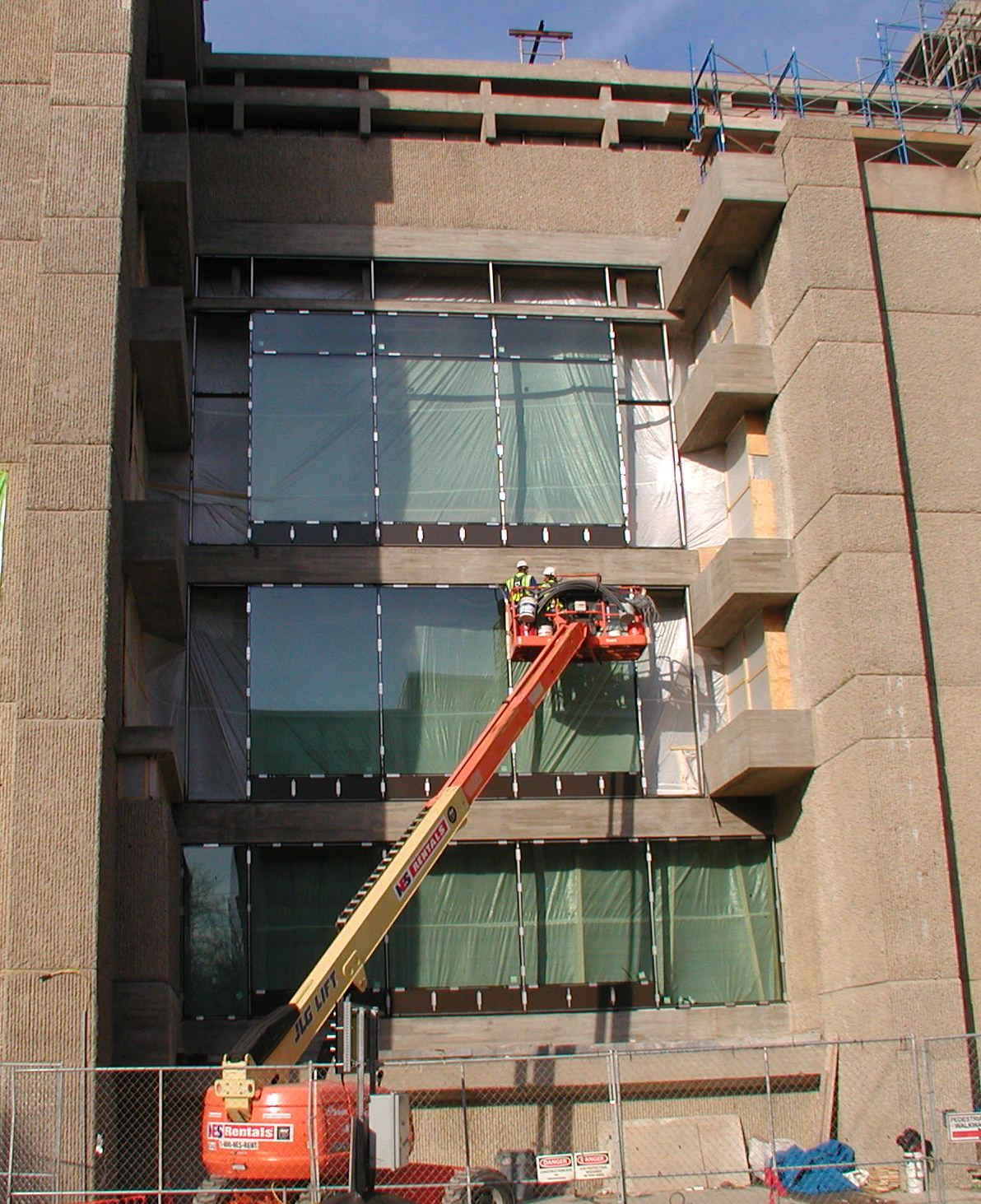 Photograph of window replacement process at Yale University's Paul Rudolph Hall, formerly the Yale Art & Architecture Building. From 2006 to 2008, the building underwent a major rehabilitation which included building envelope restoration designed by Hoffmann Architects, as well as interior renovations, mechanical and electrical system upgrades, and addition of the Loria Center for the History of Art, designed by Gwathmey Siegel & Associates Architects.